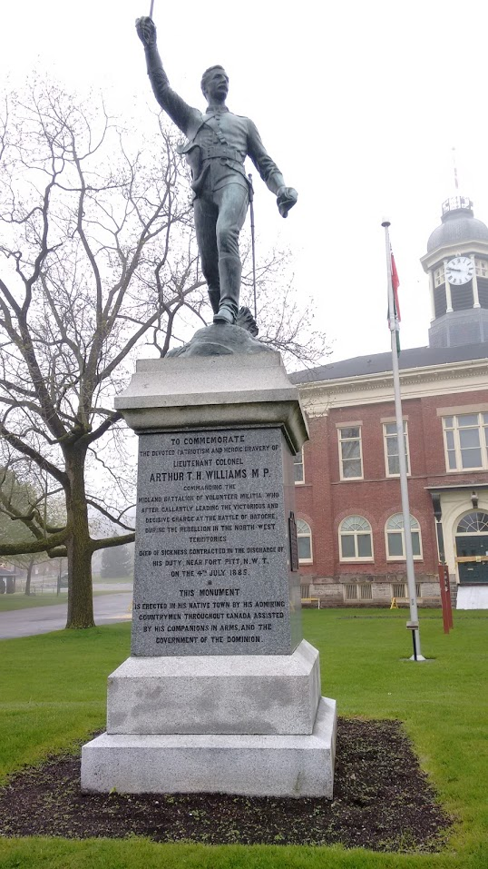 Photographed in May 2017